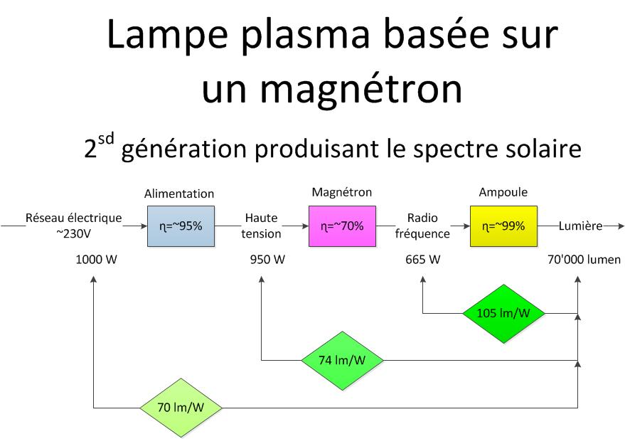 Efficency of plasma lamp second generation